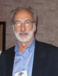 Jim Huffman at Dorchester Conference in 2010